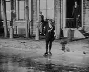 Coen de Koning, Elfstedentocht